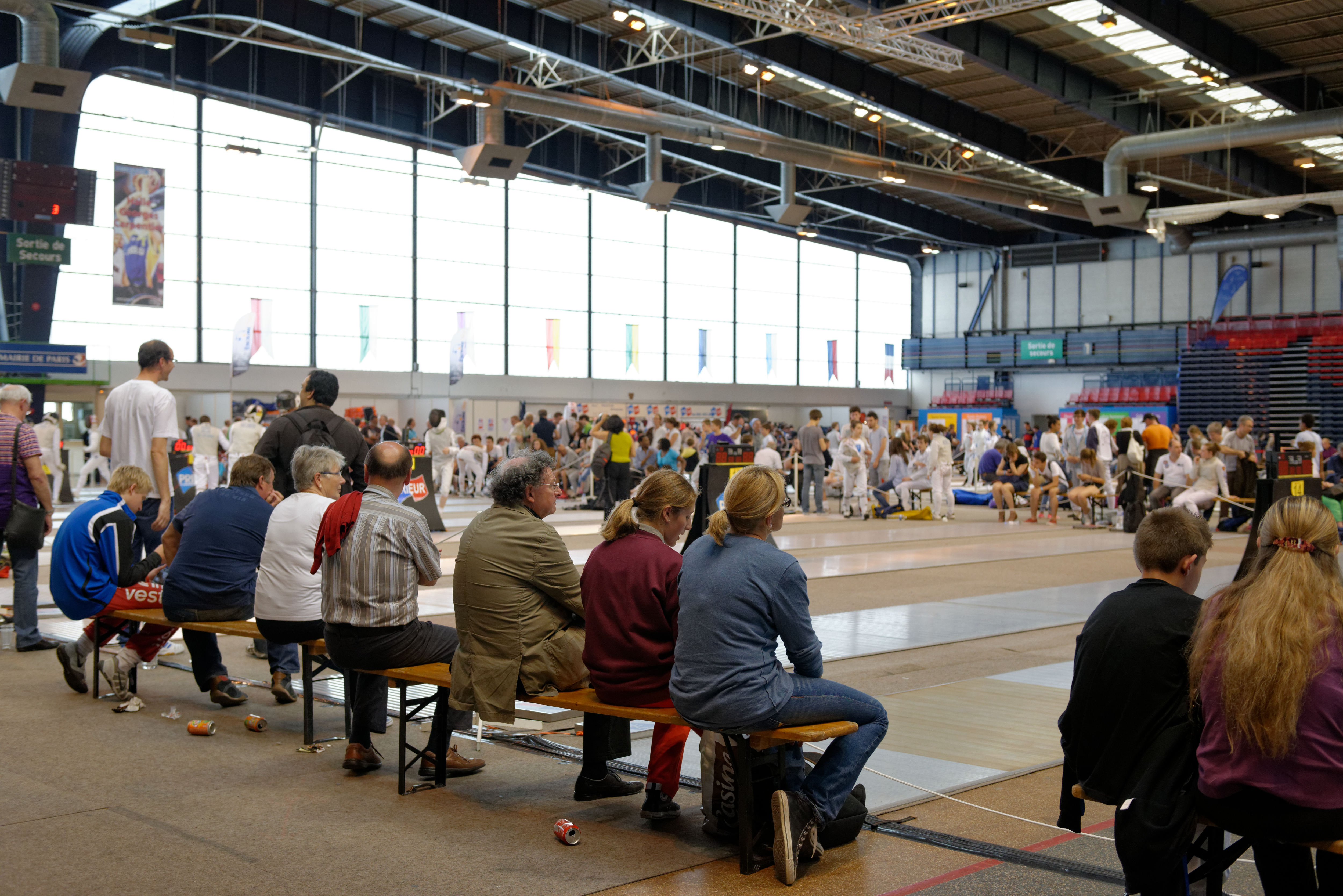 Fête des Jeunes, a national U15 fencing competition in all three weapons.